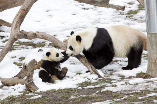 Giant Panda, Mei Xiang, plays with son, 7 month old Tai Shan, Tuesday, Feb. 14, 2006, at the Smithsonian National Zoological Park in Washington, DC. Tai Shan was born on July 9, 2005, and weighs over 33lbs. White House photo by Shealah Craighead.